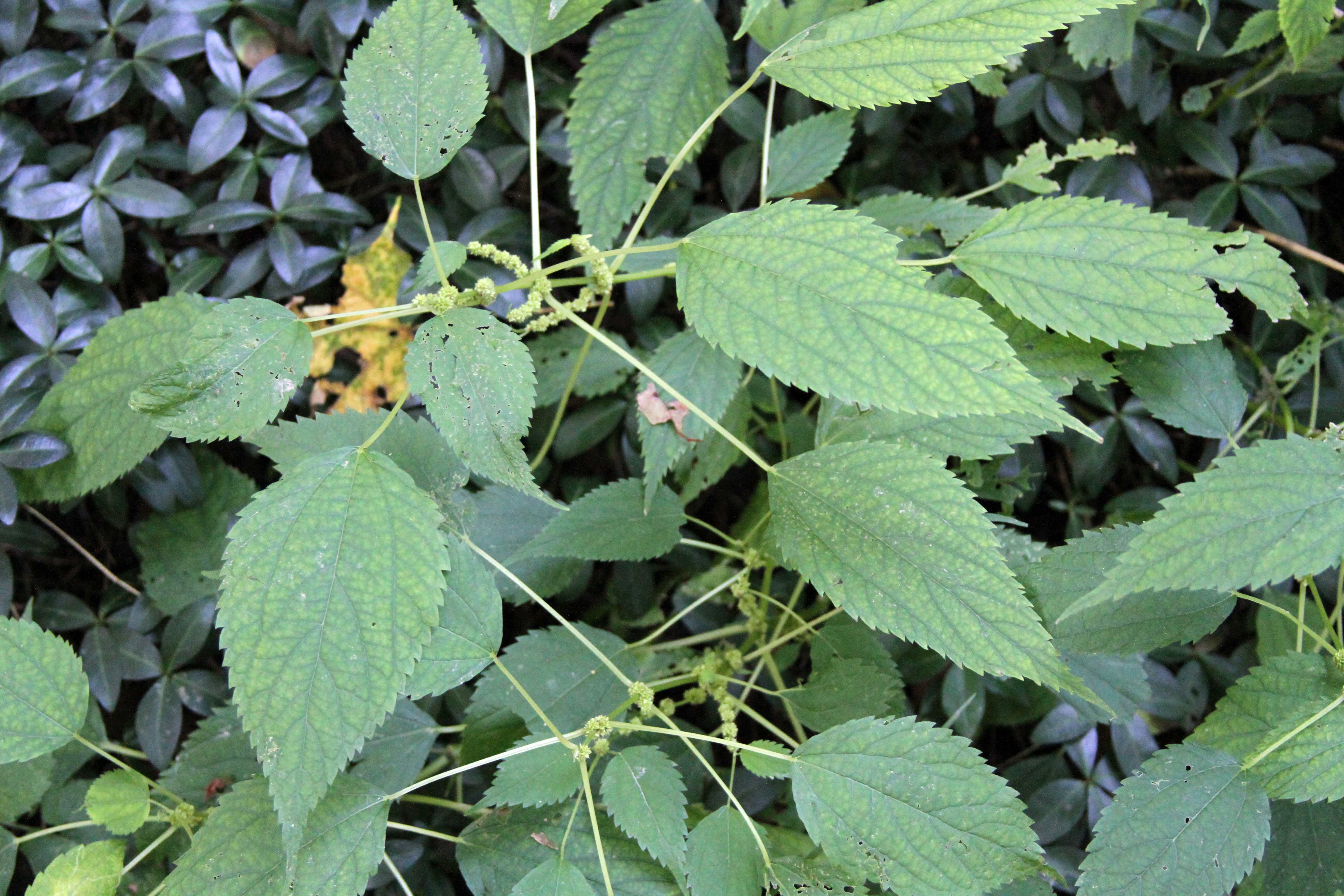 Boehmeria cylindrica - false nettle - at the Skaneateles Conservation Area, Onondaga County, New York